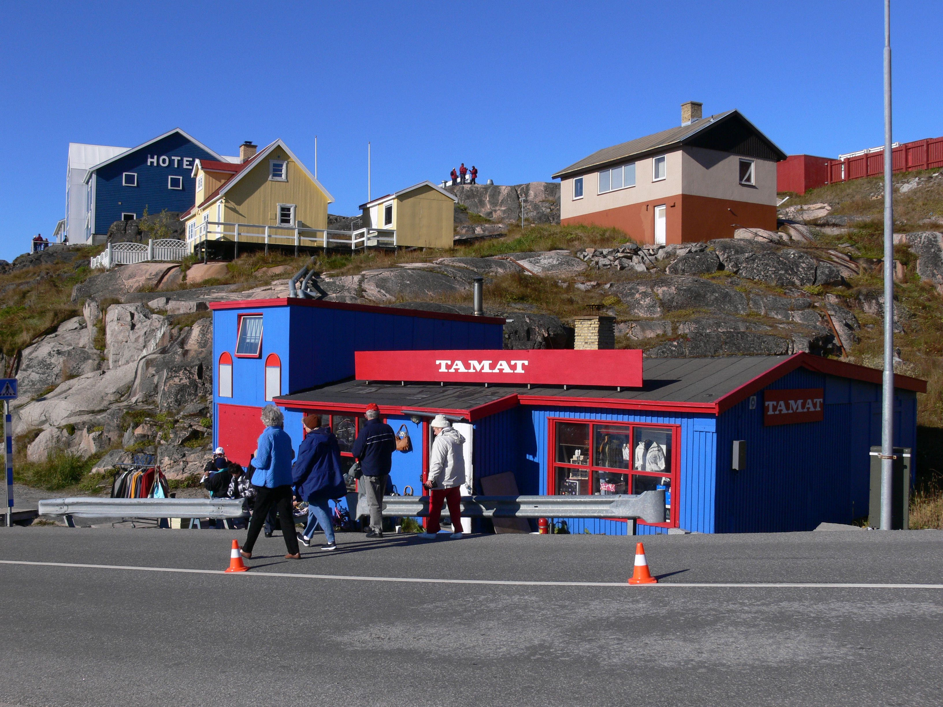 Tamat store in Qaqortoq Greenland.